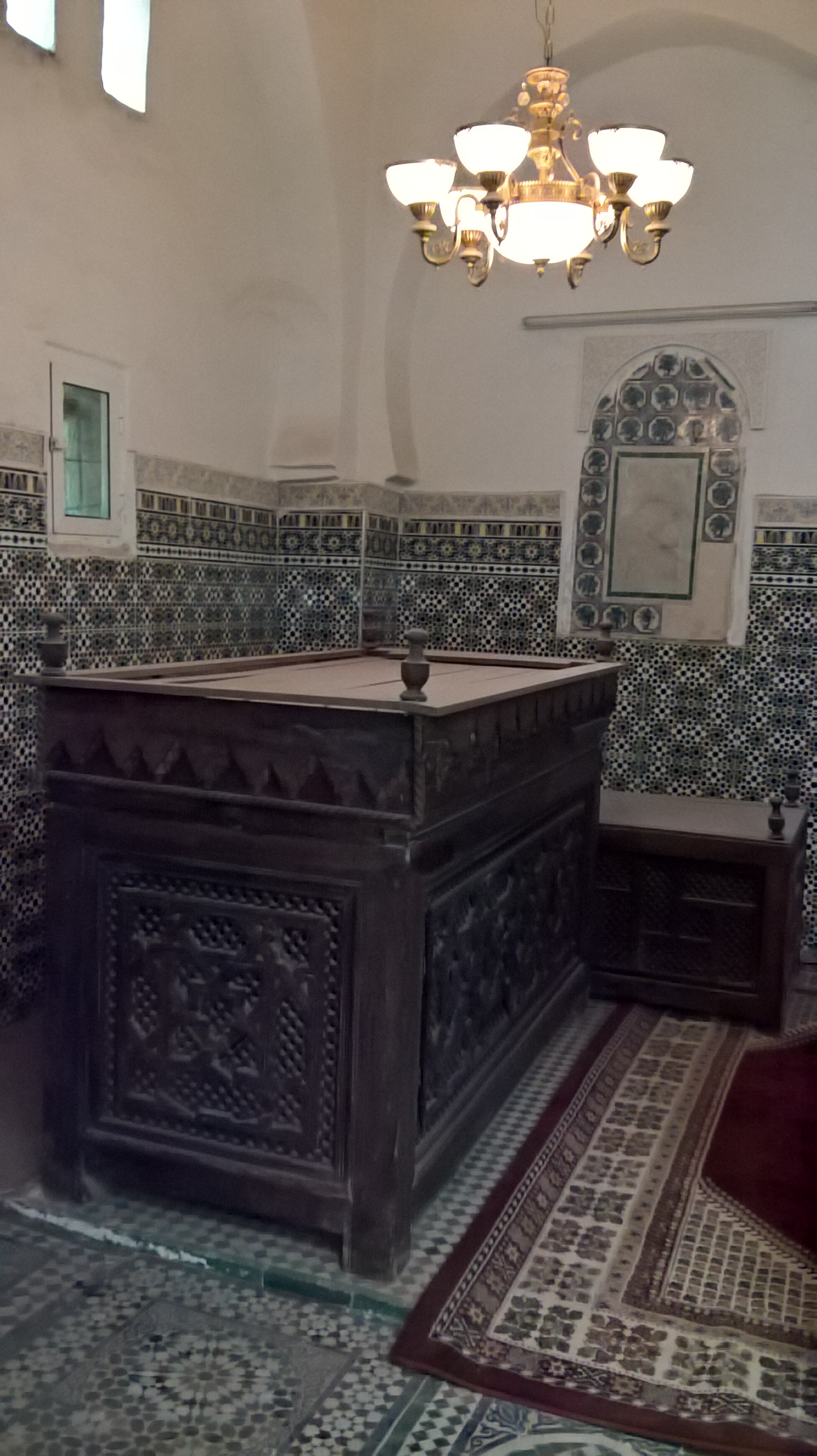 Inside of Al-Banani's tomb in Fes